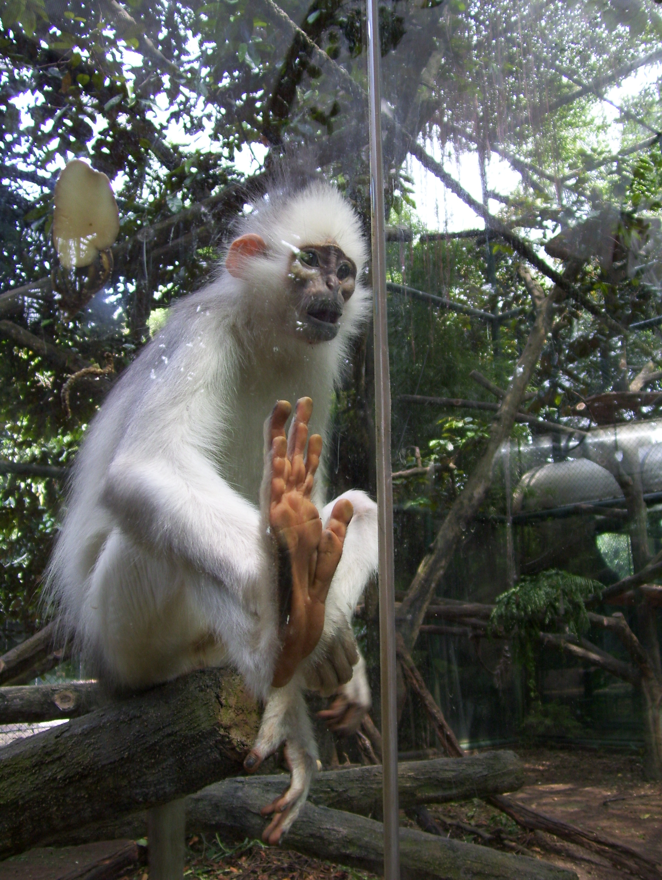 Presbytis melalophos